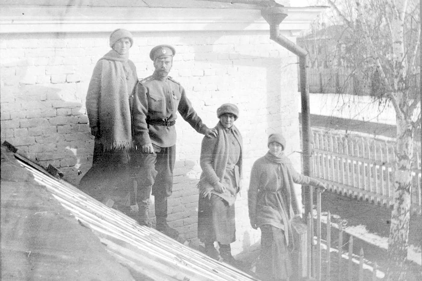 This photo of Tsar Nicholas II and his daughters Olga, Anastasia, and Tatiana in the winter of 1917 is from the Beinecke Library at Yale. It can be used provided that attribution is given to the library. The correct credit line is Romanov Collection, General Collection, Beinecke Rare Book and Manuscript Library, Yale University.